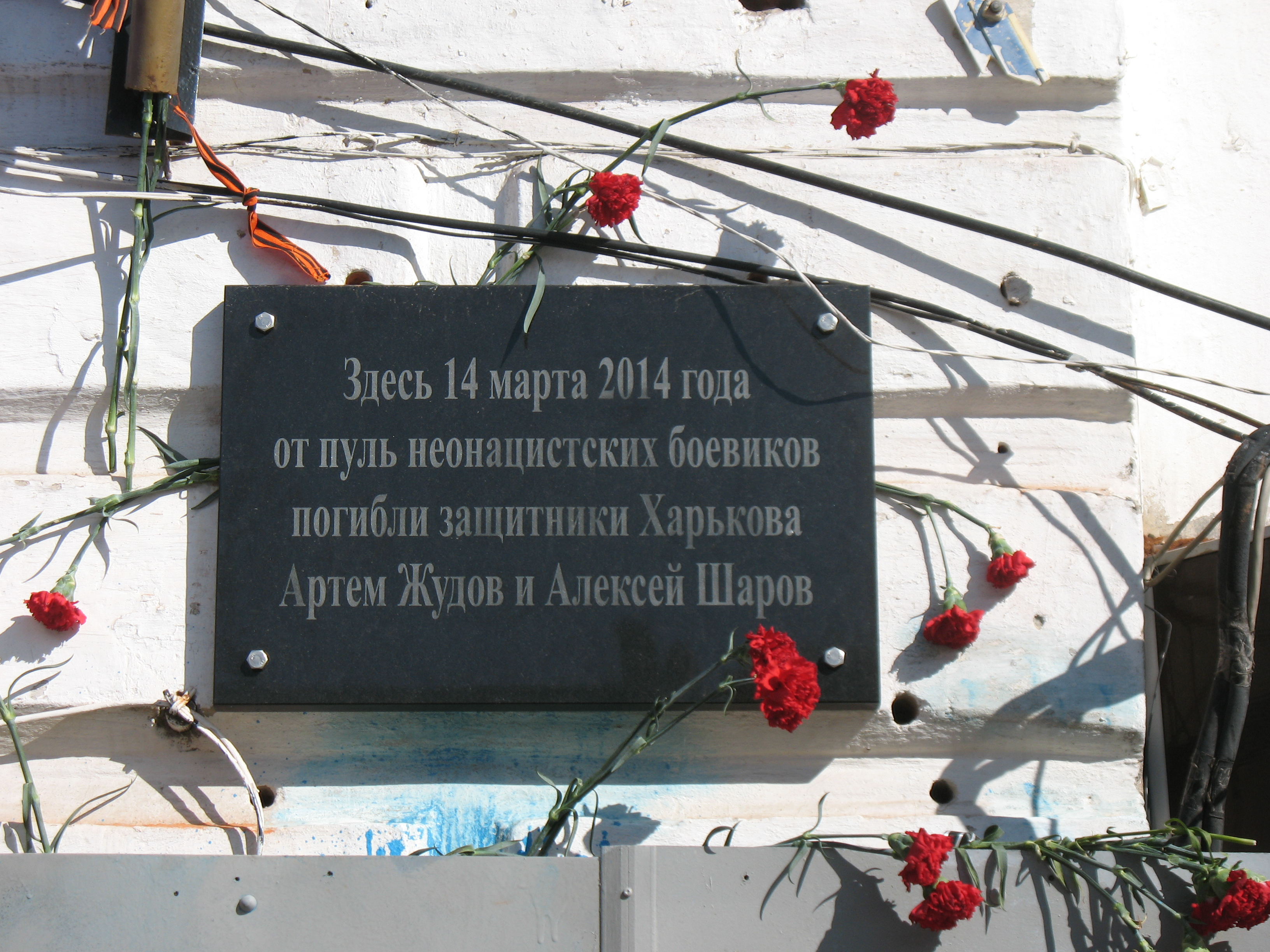 The place of execution at night from 14 to 15 March 2014 by nationalists of the "Right Sector" of seven Kharkiv citizens. Kharkov, Rymarskaya street.